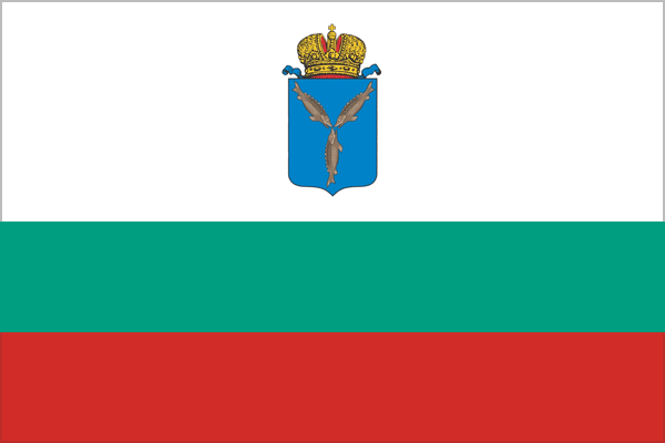 Flag of Saratov, Saratov Region, Russia